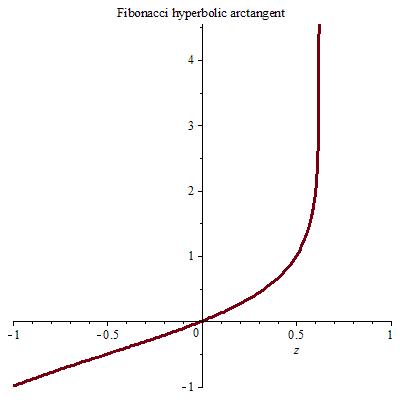 Fibonacci hyperbolic arctan 2D